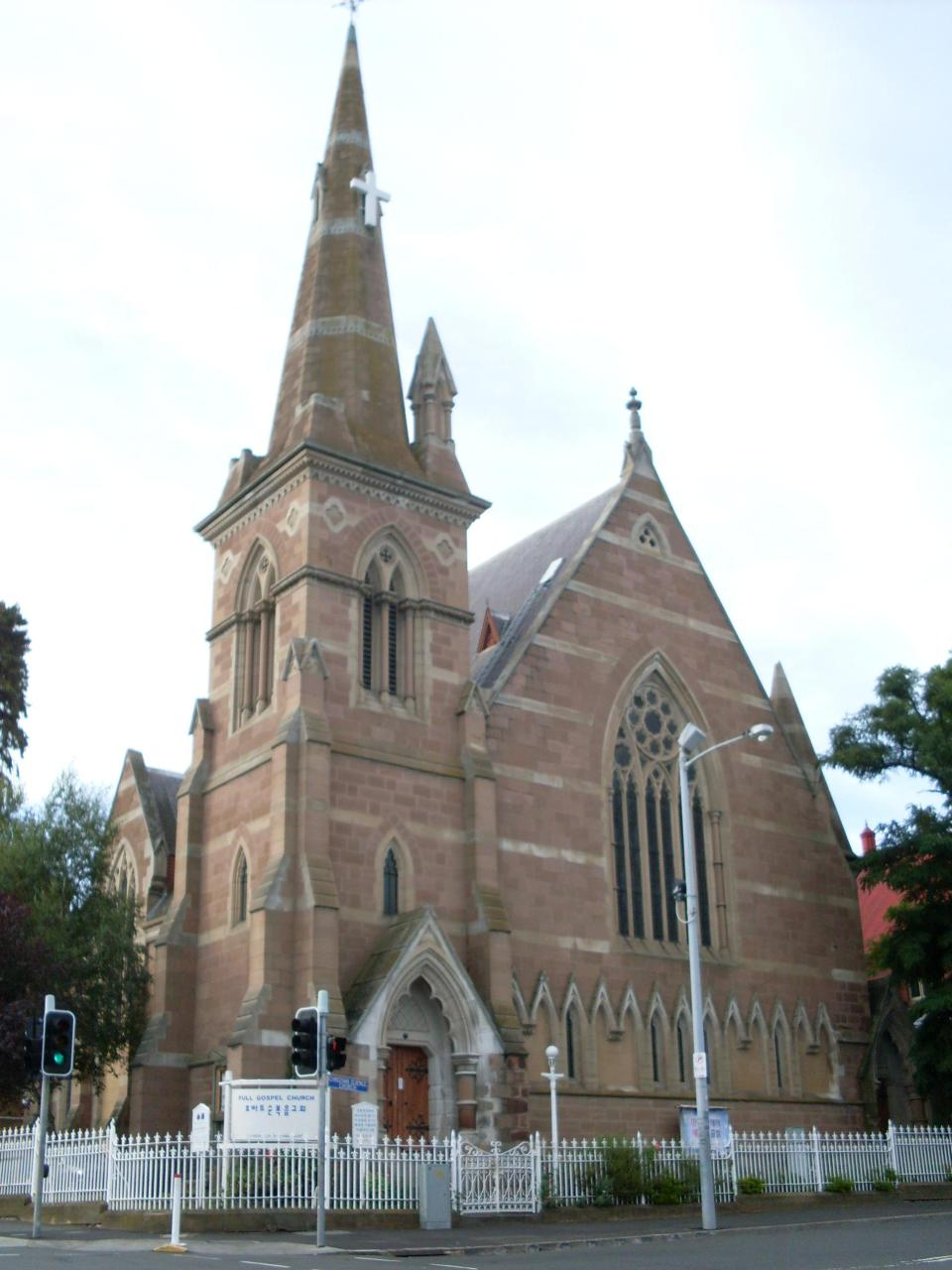 Hobart Gospel Church